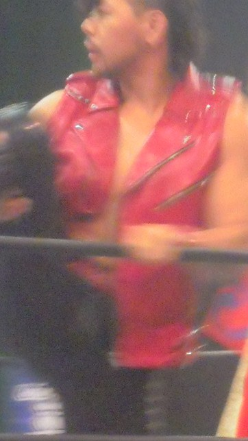 Japanese professional wrestler, Shinsuke Nakamura. Nov 20 2011 NJPW Tatebayashi.